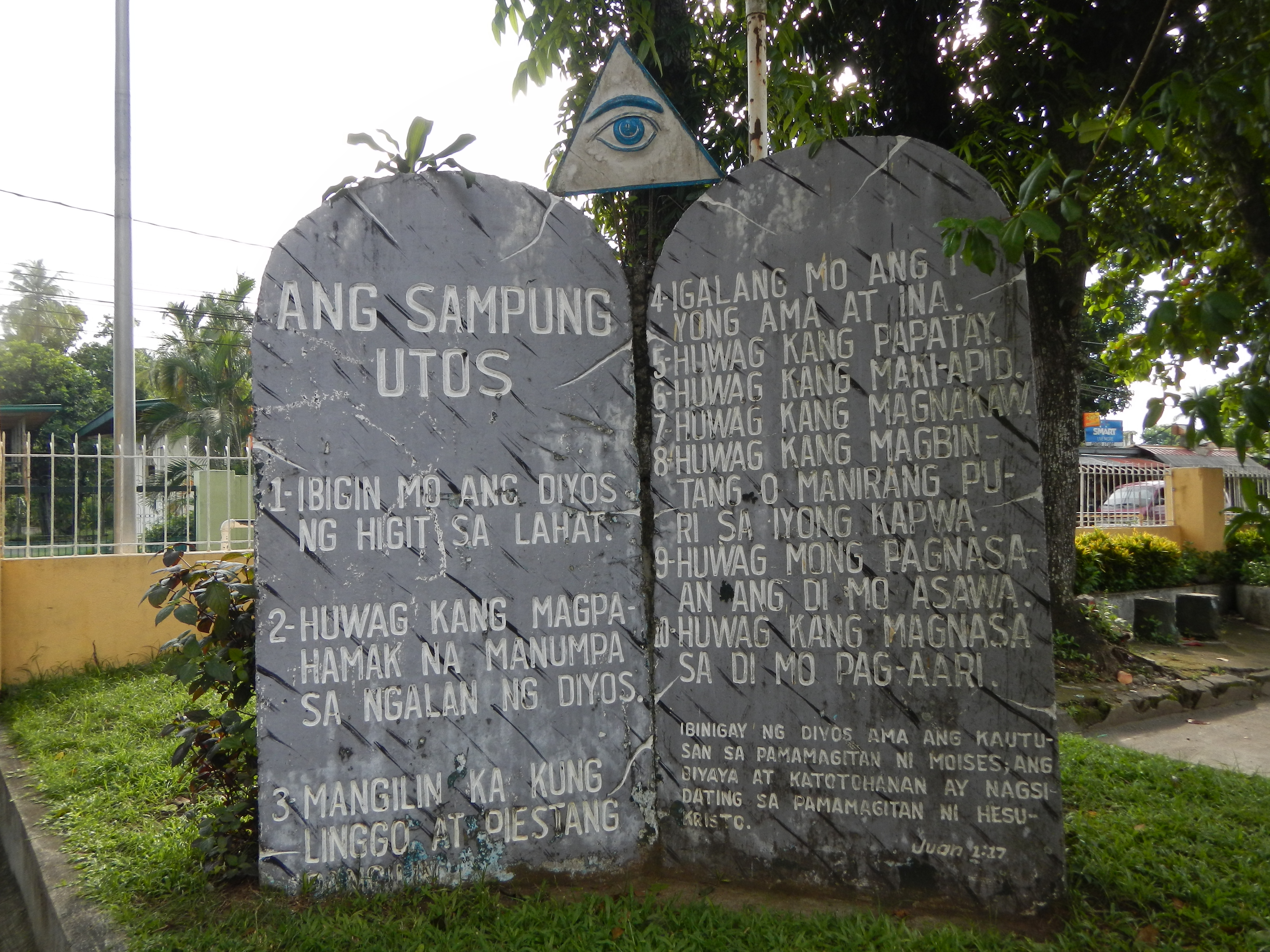 1860 Saint Isidore the Laborer Parish Church of Calauan / Simbahan ni San Isidro Labrador/ Church of Calauan (Calauan, Laguna)[1] In 1860, a church made of bricks and stone to honor its patron saints San Isidro Labrador and San Roque. Doña Eleuteria Punzalan financed its construction, while Don Paulino Gavino Oliva donated the church bell in 1867.[2] (Calauan town proper) Coordinates: 14°8'41"N 121°18'55"E [3] Church built through the efforts of Don Andres Roxas[4] ----- Calauan, Laguna, [5] Philippines - José Rizal, [6] ----------------- It belongs to the Roman Catholic Diocese of San Pablo [7] - Vicariate of the Immaculate Conception ------- Calauan, Laguna [8] is a second class municipality in the province of Laguna, Philippines. According to the 2010 census, it has a population of 74,890 people.Website The town got its name from the term kalawang, which means rust. Calauan is known for the Pineapple Festival, which is celebrated every May. In 1993, the town became the focus of media attention when Antonio Sánchez;[9] The Patron of Calauan is Saint Isidore the Laborer,[10] the patron of farmers.Website [11] Coordinates: 14°7'58"N 121°17'34"E Town Fiesta – May 15 Calauan “Pinya” Festival – May 11-15 2013 Election Results [12] Calauan lies at the foot of three connecting mountains (Mount Banahaw, Mount Tamlong, List of inactive volcanoes in the Philippines[13] - [14] San Pablo Volcanic Field and Imok hill). Calauan got its name from "kalawang," the Tagalog term for rust.